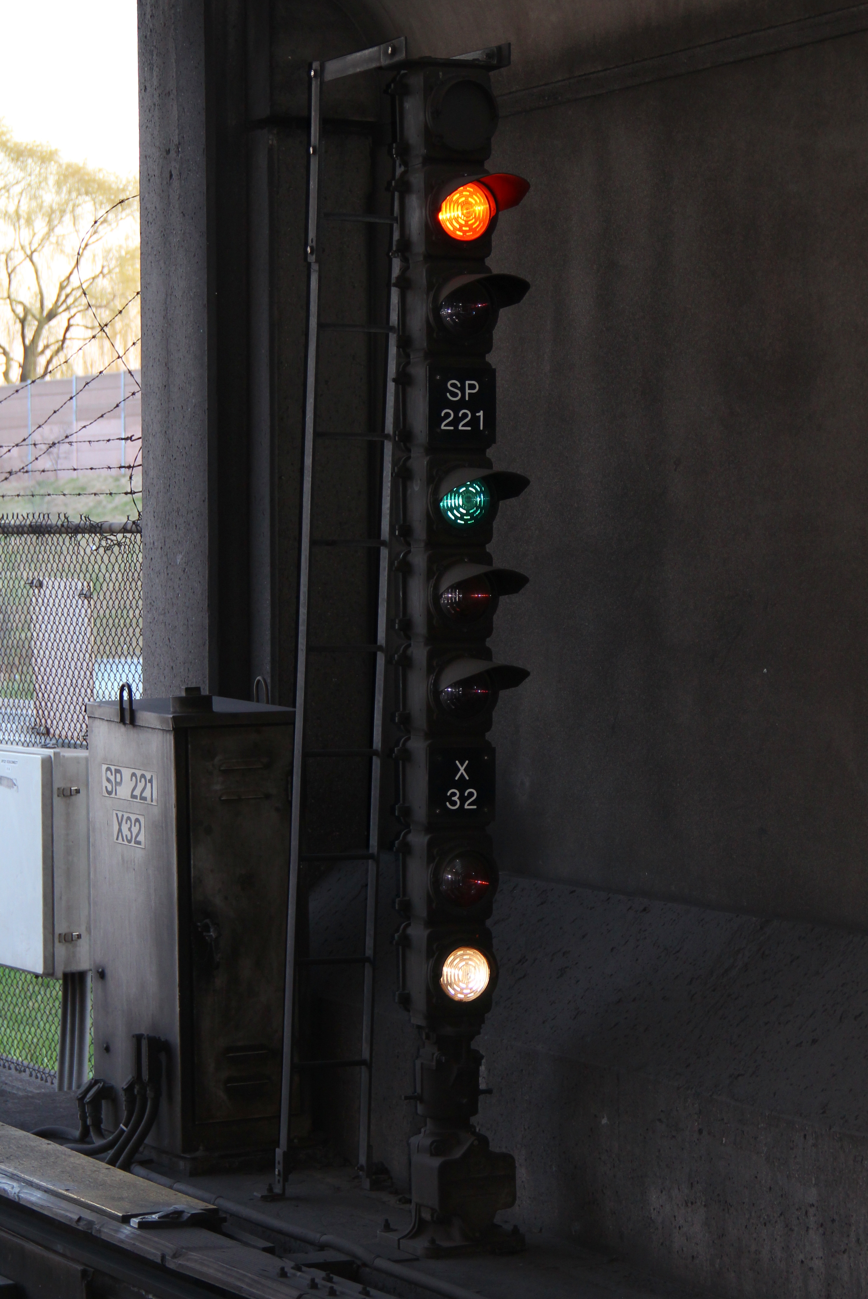 An interlocking signal on the Toronto Transit Commission's subway system. The yellow-over-green aspect indicates that the train may proceed with caution; the next signal on the line is currently at stop (red). The lunar white lamp at the bottom indicates that grade timing is in effect for the next block, and that the next signal is red only because of grade timing.